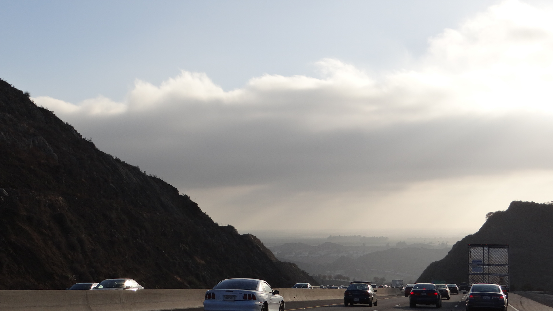 Driving down the Conejo Grade of the Ventura Freeway—U.S. Route 101 — in Ventura County, California. Hwy. 101 section in the Santa Monica Mountains between Thousand Oaks and Camarillo.